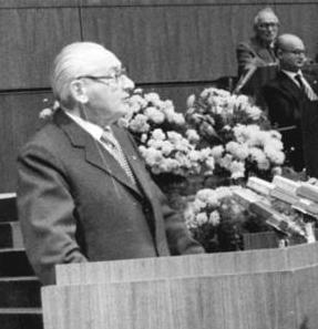 Paul Verner speaking at the 1982 CDU congress